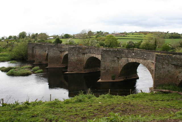 The ancient bridge across the Finn at Clady.